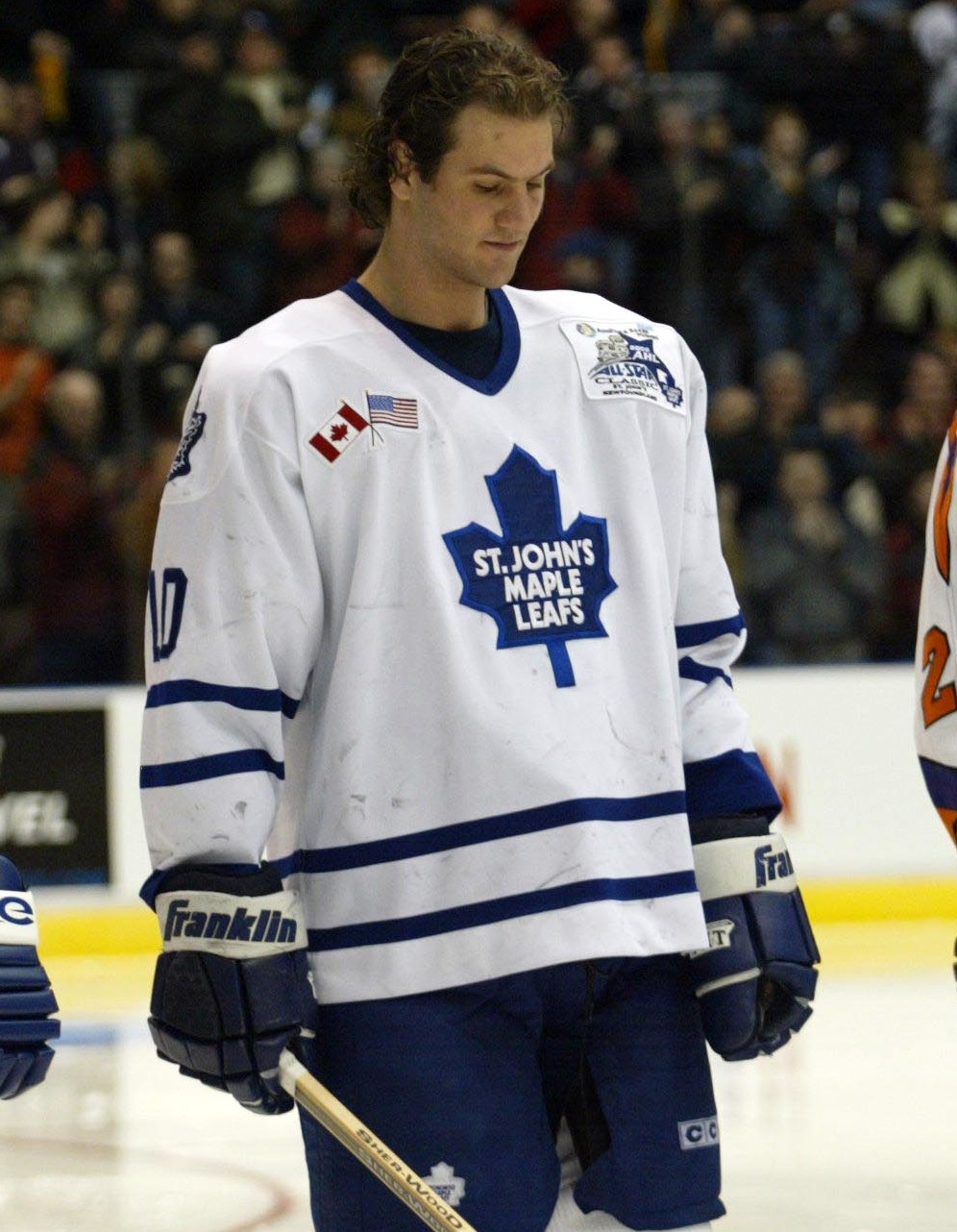 Photo: James Baker/AHL